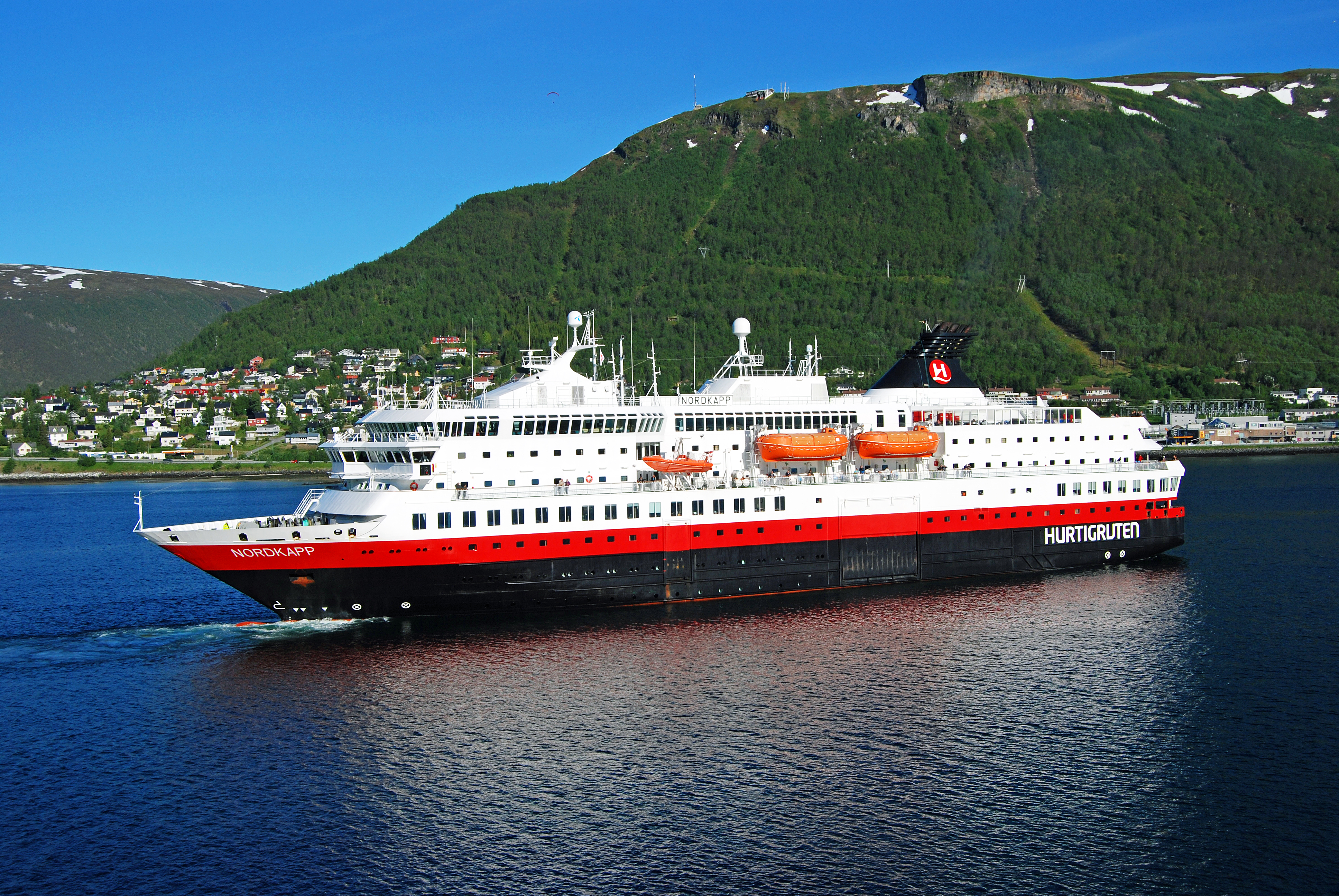 Hurtigruten Line's M/S Nordkapp, named after one of the highlights of the ship's cruise, the northernmost point of mainland Europe, the North Cape (71°N).